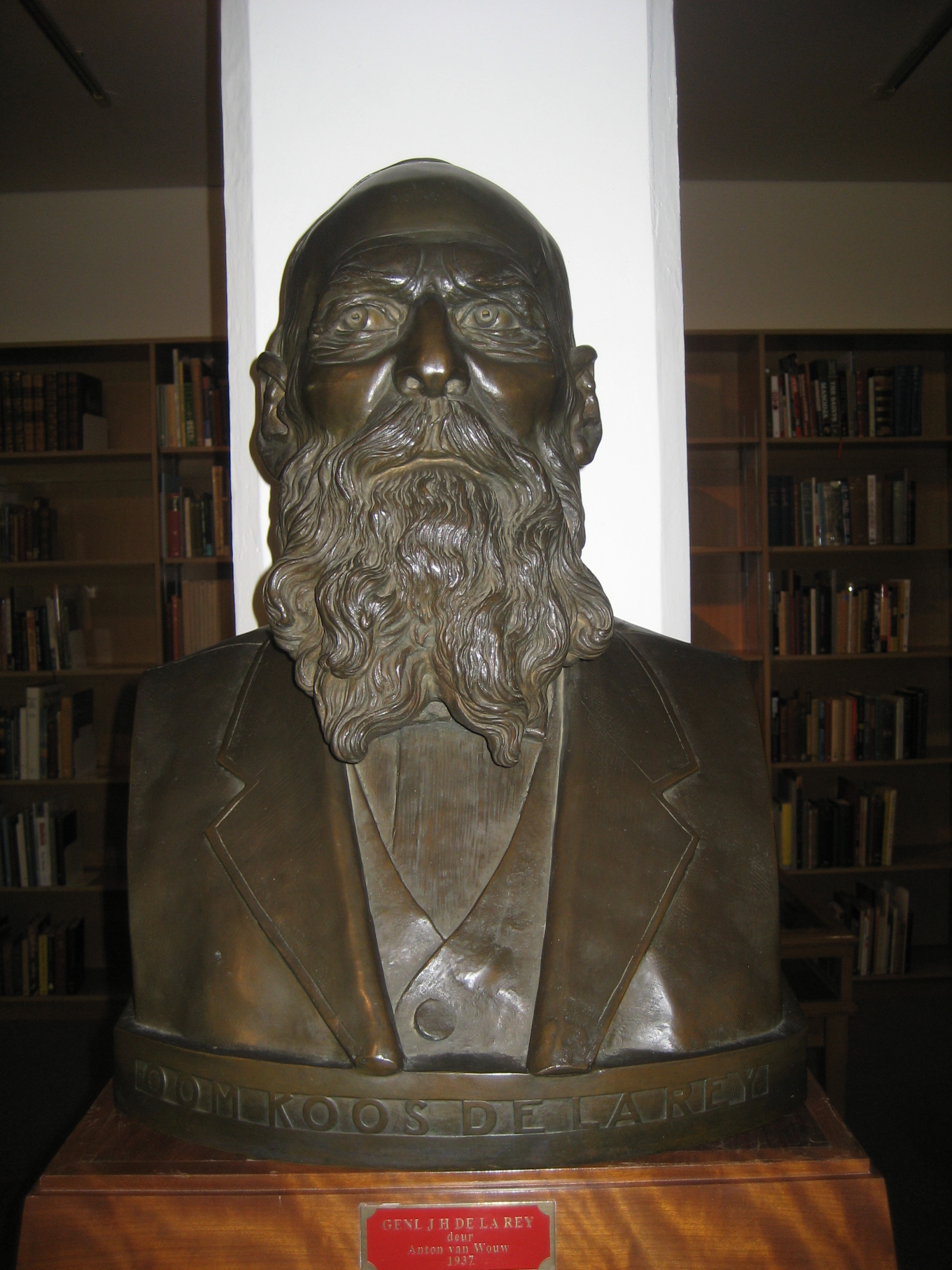 General Koos de la Rey (1847-1914), bust by Anton van Wouw (1937). Location: Special Collections, J.S. Gericke Library, Stellenbosch (South Africa)